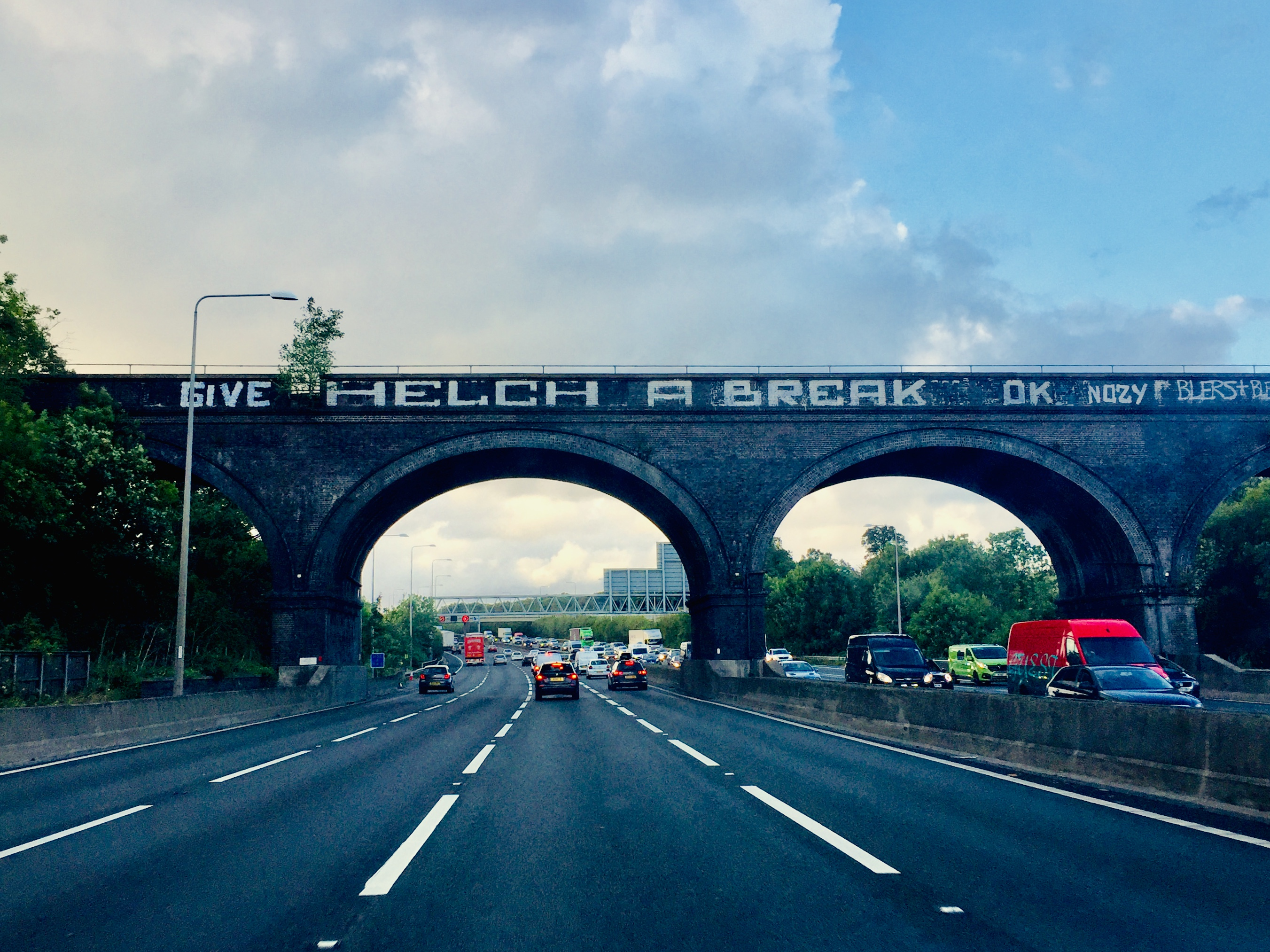 Graffiti on the Chalfont Viaduct near, Gerrards Cross, United Kingdom, repainted in 2018 to read give helch a break!!! (formerly it read give peas a chance)